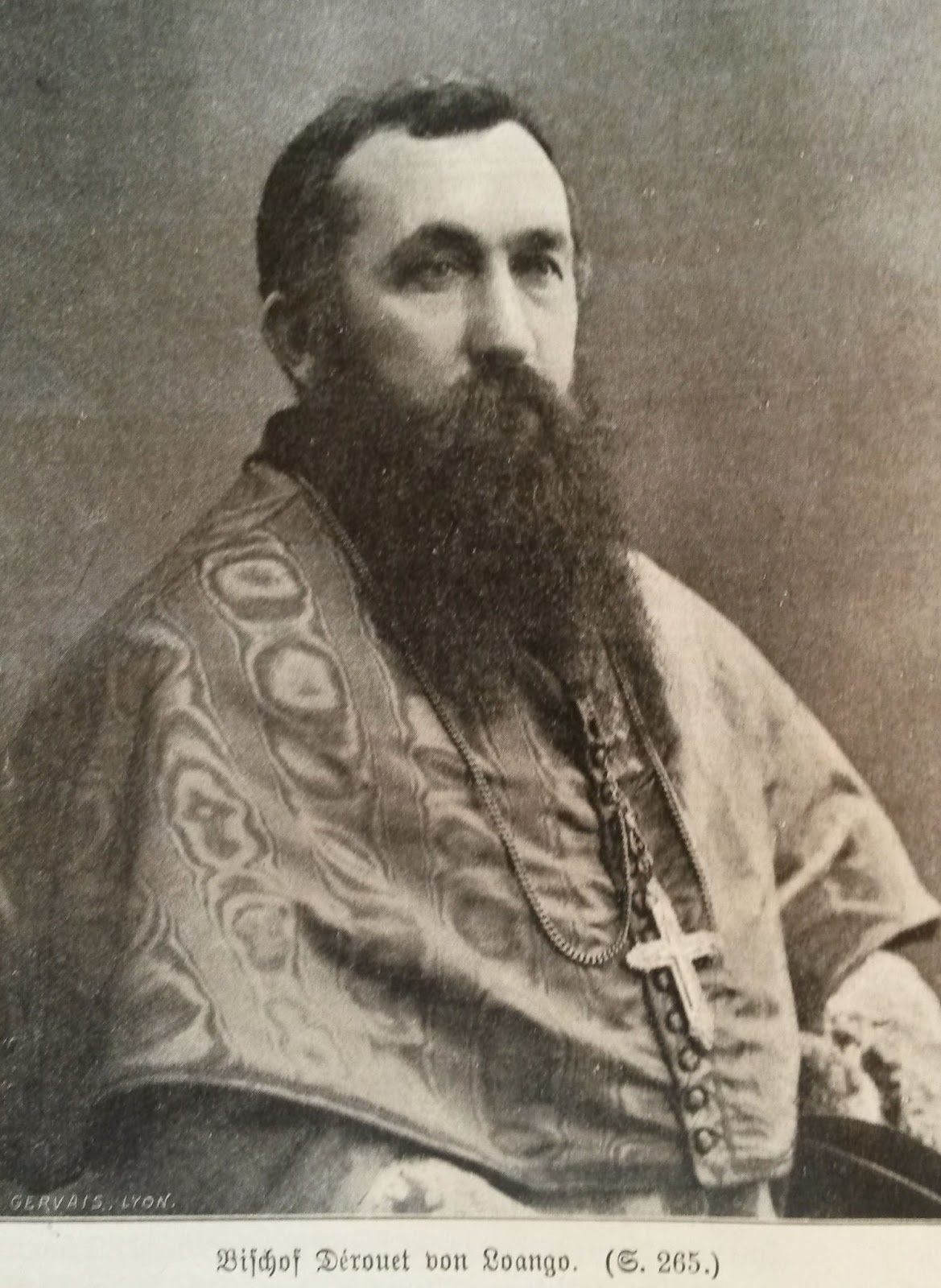 Bishop Jean Louis Joseph Dérouet Vicar Apostolic of Lower French Congo